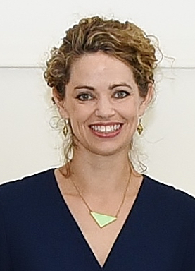 Laura Clarke, at Government House, Wellington, on 1 February 2018, after presenting her credentials as British High Commissioner to New Zealand to the governor-general.